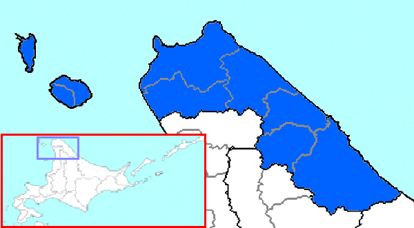 The map of Soya Subprefecture in Hokkaido Prefecture, Japan.